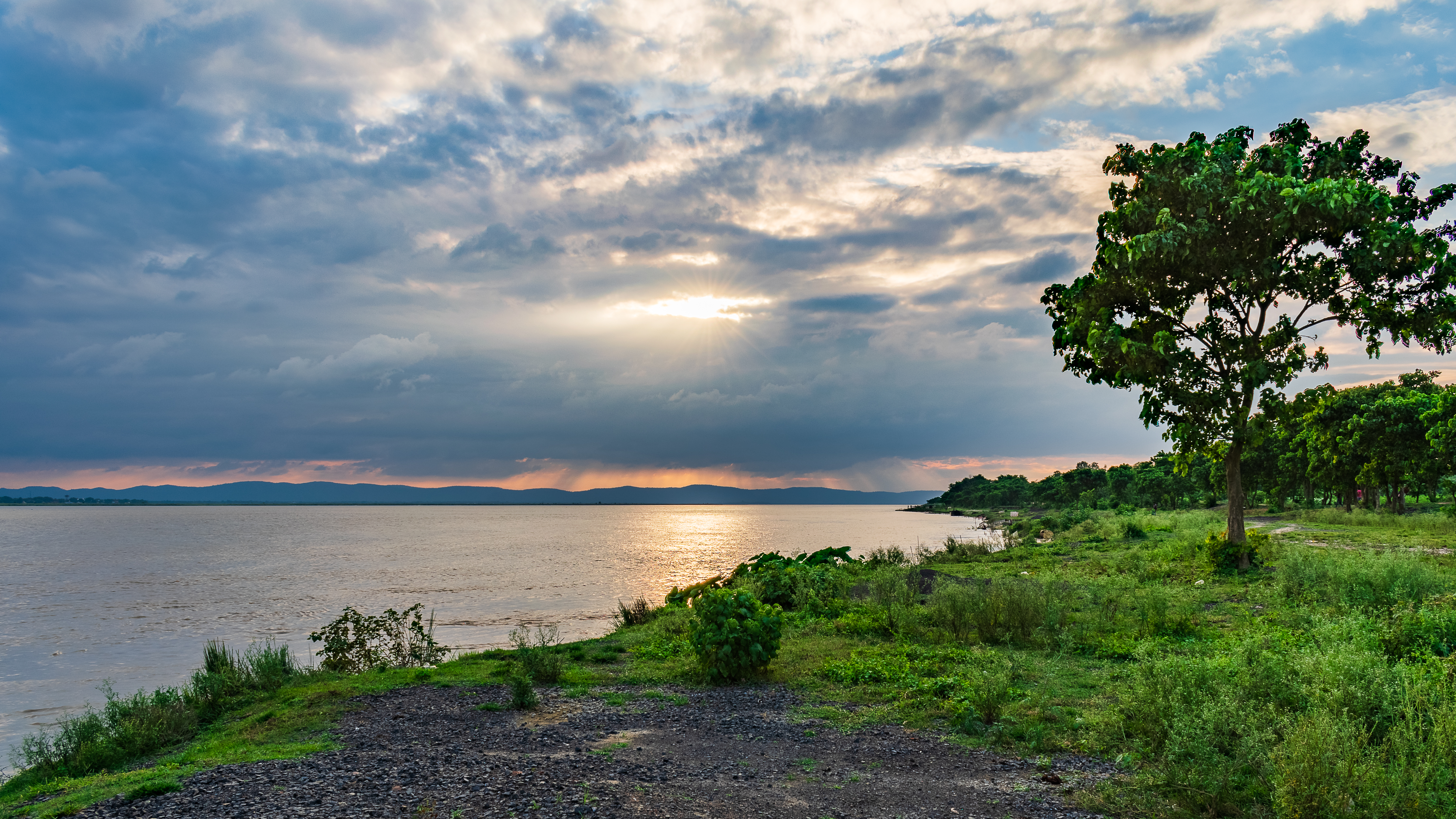 River Ganga and Tinpahar Hills of Jharkhand seen from Manikchak Malda West Bengal